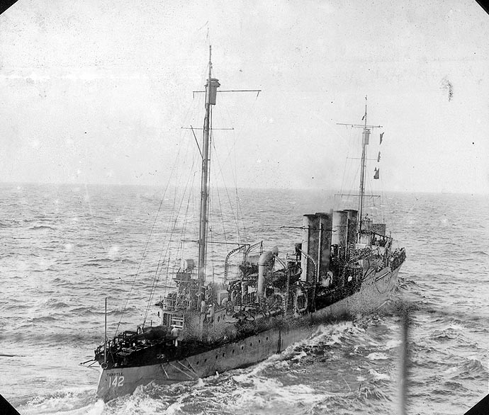 The U.S. Navy destroyer USS Tarbell (DD-142) at sea, in 1919.